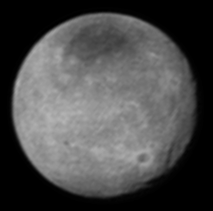 July 13, 2015 How Big Is Pluto? New Horizons Settles Decades-Long Debate IMAGE CAPTION: Charon’s newly-discovered system of chasms, larger than the Grand Canyon on Earth, rotates out of view in New Horizons’ sharpest image yet of the Texas-sized moon. It’s trailed by a large equatorial impact crater that is ringed by bright rays of ejected material. In this latest image, the dark north polar region is displaying new and intriguing patterns. This image was taken on July 12 from a distance of 1.6 million miles (2.5 million kilometers).